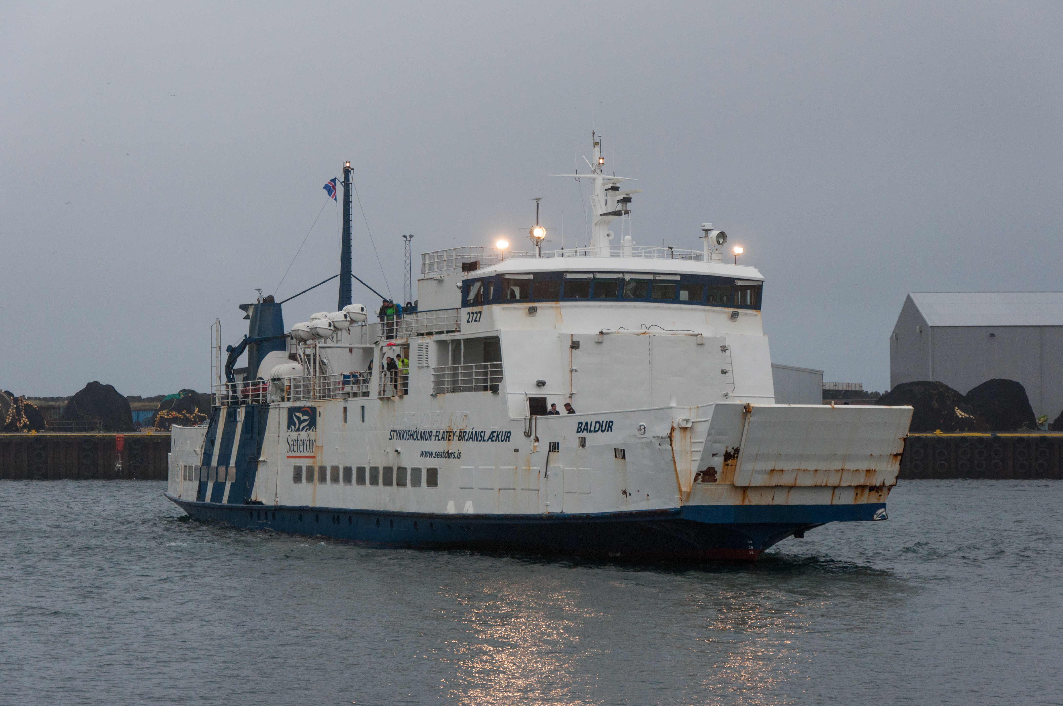 Iceland, visit to Vestmannaeyjar islands on a pretty stormy and foggy day